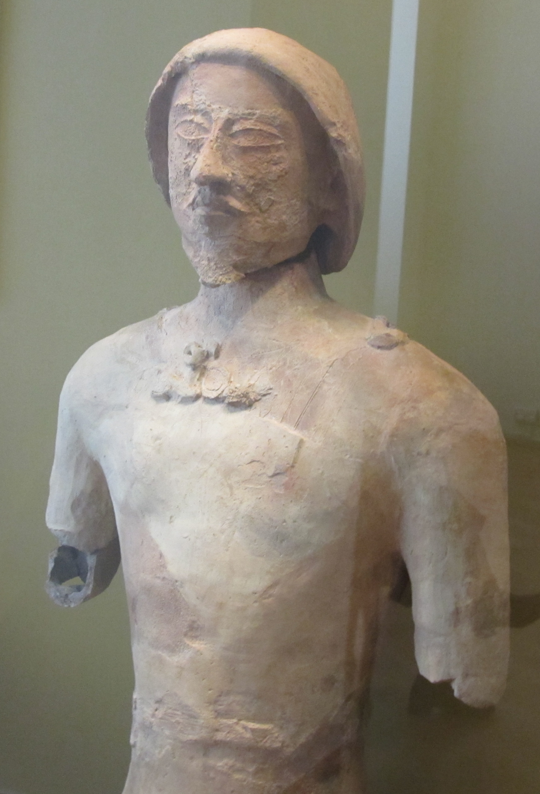 Sculpture of Khorezmian soldier